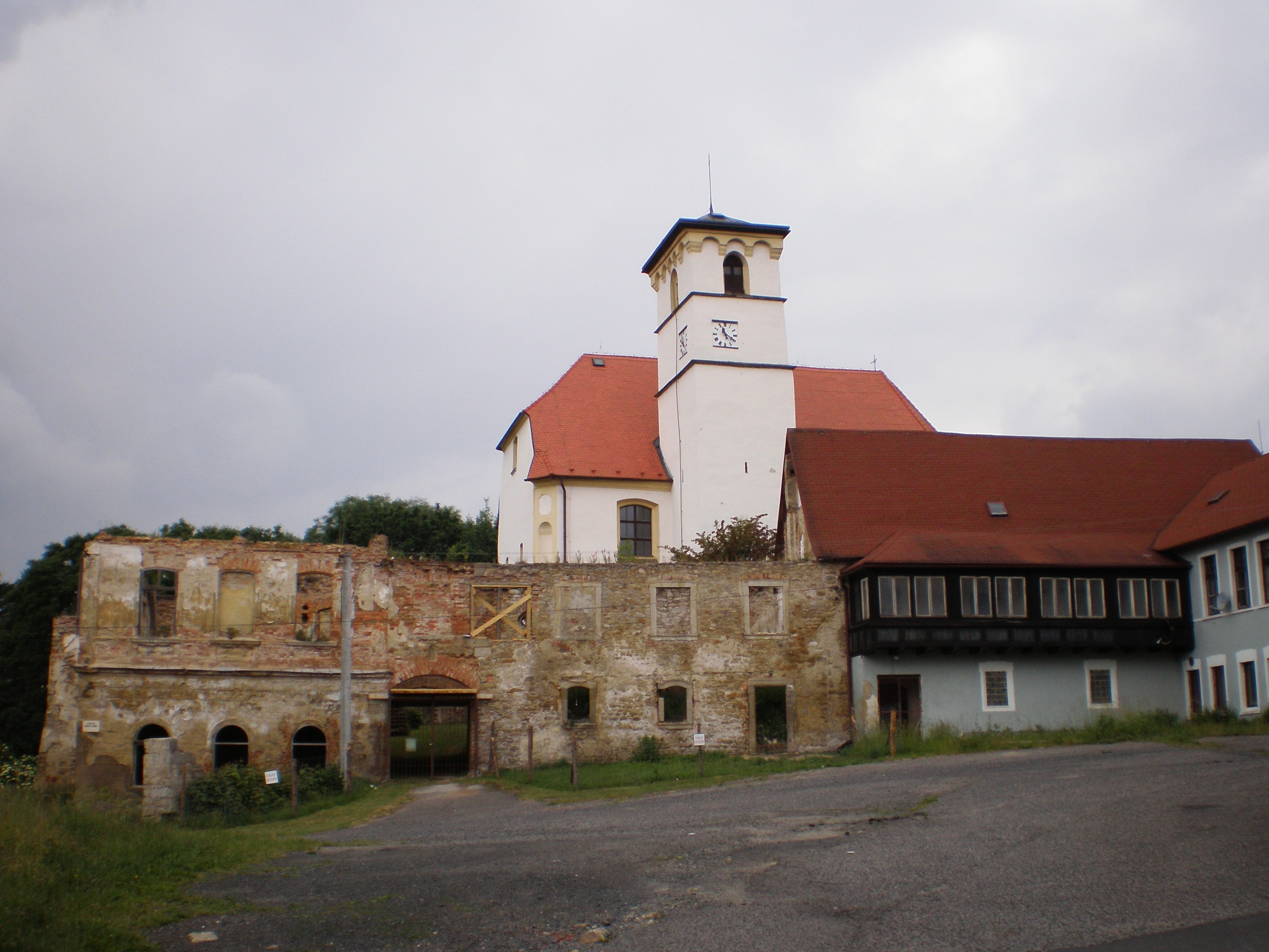 castle Hazlov, Czech Republic